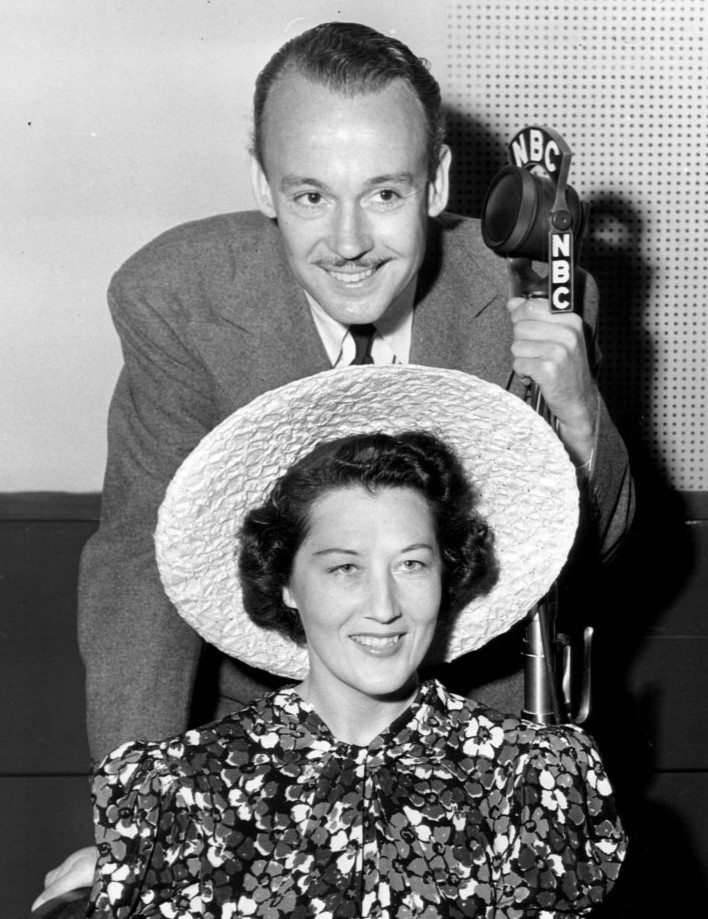 Photo of Margaret Brayton and Paul McGrath who portrayed Melvin and Dora Foster, the parents of teenager Judy Foster in the radio program A Date with Judy.